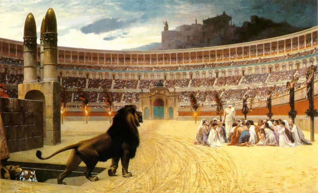 William T. Walters commissioned this painting in 1863, but the artist did not deliver it until 20 years later. In a letter to Walters, Gérôme identified the setting as ancient Rome's racecourse, the Circus Maximus. He noted such details as the goal posts and the chariot tracks in the dirt. The seating, however, more closely resembles that of the Colosseum, Rome's amphitheater, in which gladiatorial combats and other spectacles were held. Similarly, the hill in the background surmounted by a colossal statue and a temple is nearer in appearance to the Athenian Acropolis than it is to Rome's Palatine Hill. The artist also commented on the religious fortitude of the victims who were about to suffer martyrdom either by being devoured by the wild beasts or by being smeared with pitch and set ablaze, which also never took place in the Circus Maximus. In this instance, Gérôme, whose paintings were usually admired for their sense of reality, has subordinated historical accuracy to drama. W. M. Brady & Co, New York, in "Drawings and Oil Sketches 1700-1900," 27 January 2009 - 12 February 2009, No. 21, offers "Study for the 'Death of Caesar," an oil on canvas with pen and ink underdrawing, measuring Height: 19.5 cm (7.6 in); Width: 33 cm (12.9 in) dimensions QS:P2048,19.5U174728;P2049,33U174728, which formerly belonged to Maurice Aiccardi, Paris. This sketch may be the one that Theophile Gautier alluded to during a visit to the artist's studio in 1858 (G. Ackerman, Jean-Leon Gerome: Monographie revisee 2000, pp. 240-241).